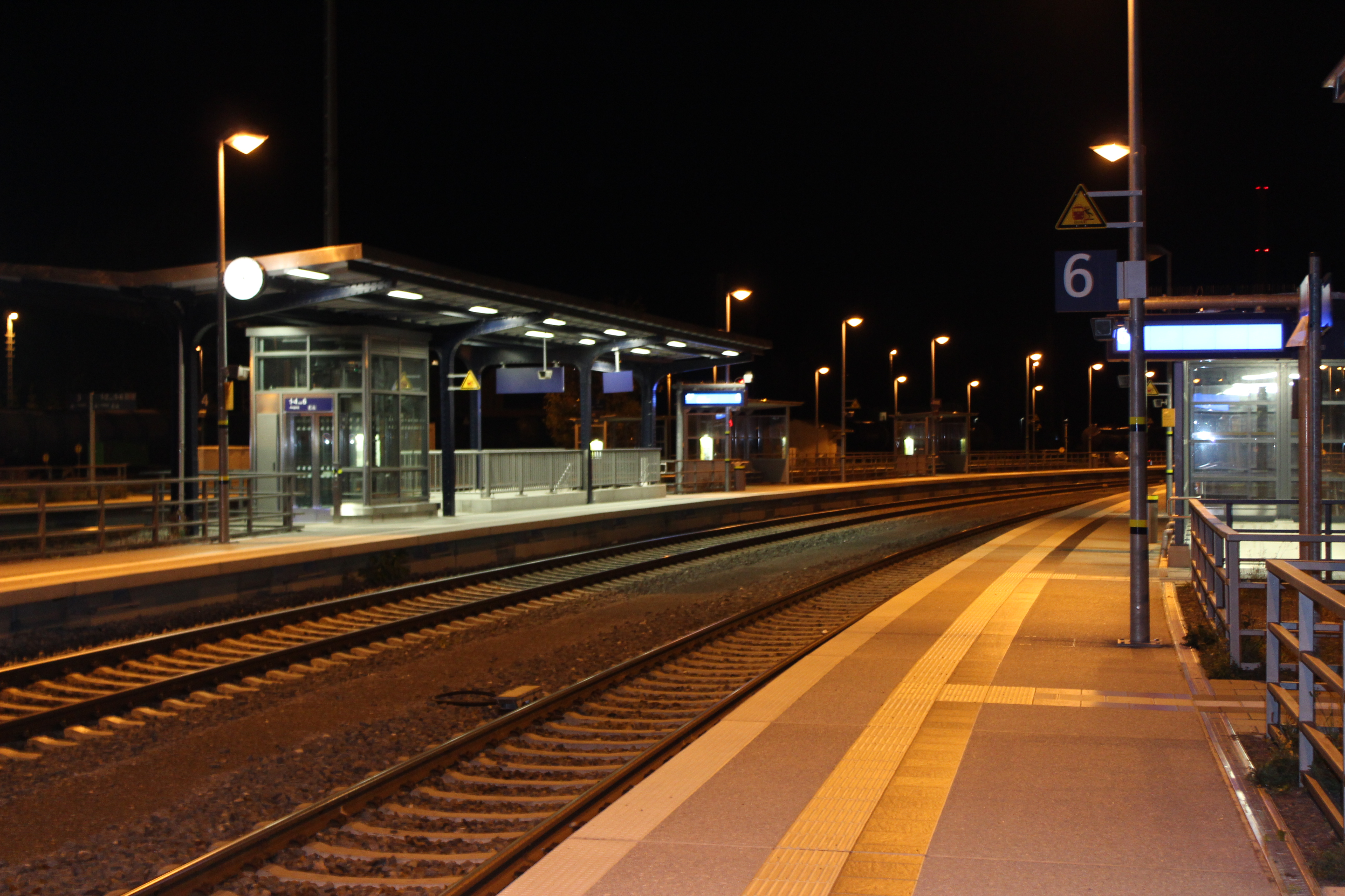 train station Jena-Göschwitz, platforms of the railway Weimar-Gera